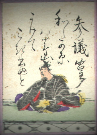 A portrait of Sangi no Takamura; illustration from an uta-garuta playing card for Hyakunin Isshu, created in the Edo period.